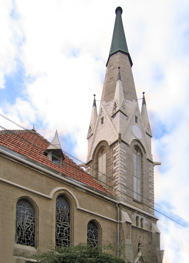 Emanuel church in the American-Templar clolony in Jaffa, Israel